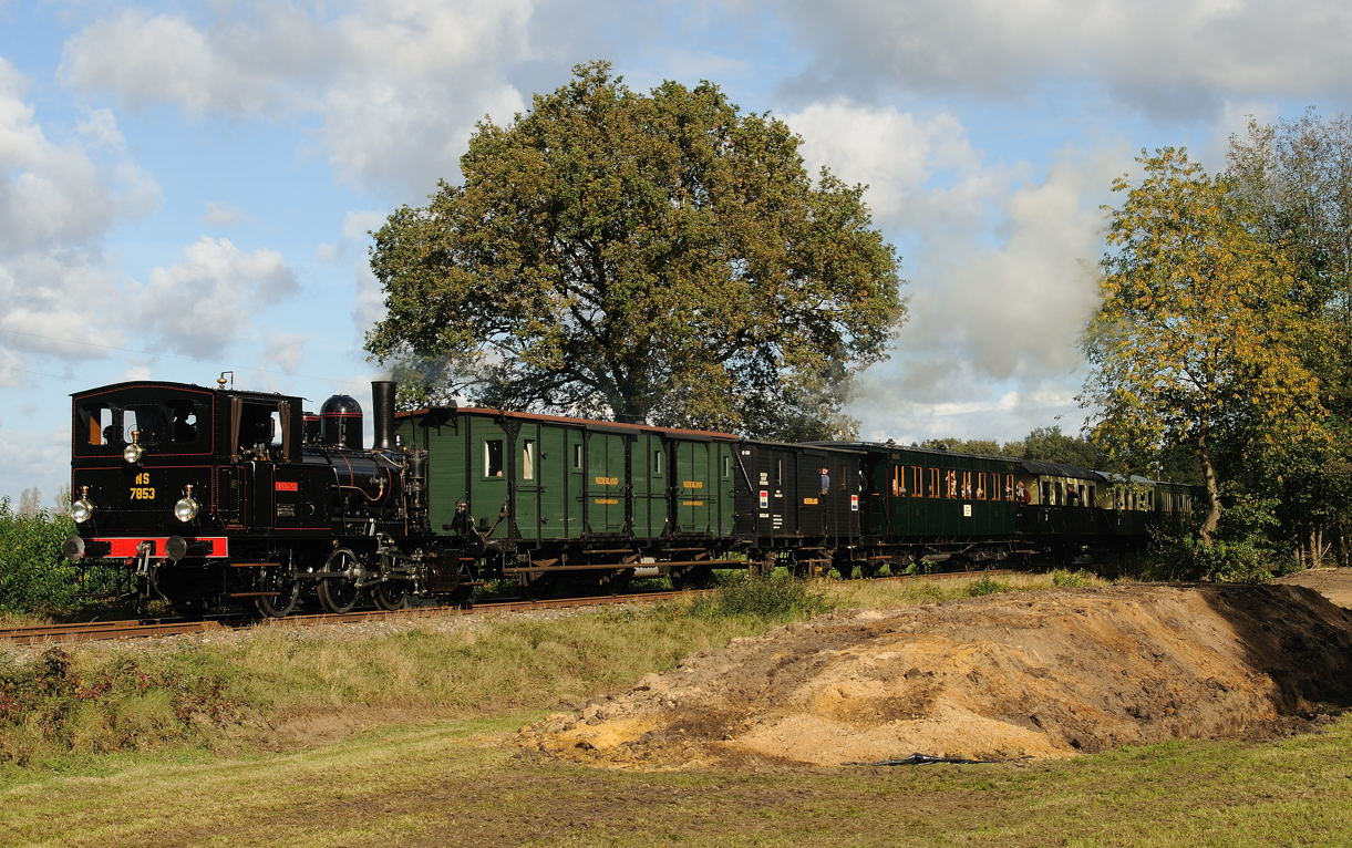 MBS replica 7853 with passengertrain between Boekelo and Haaksbergen.